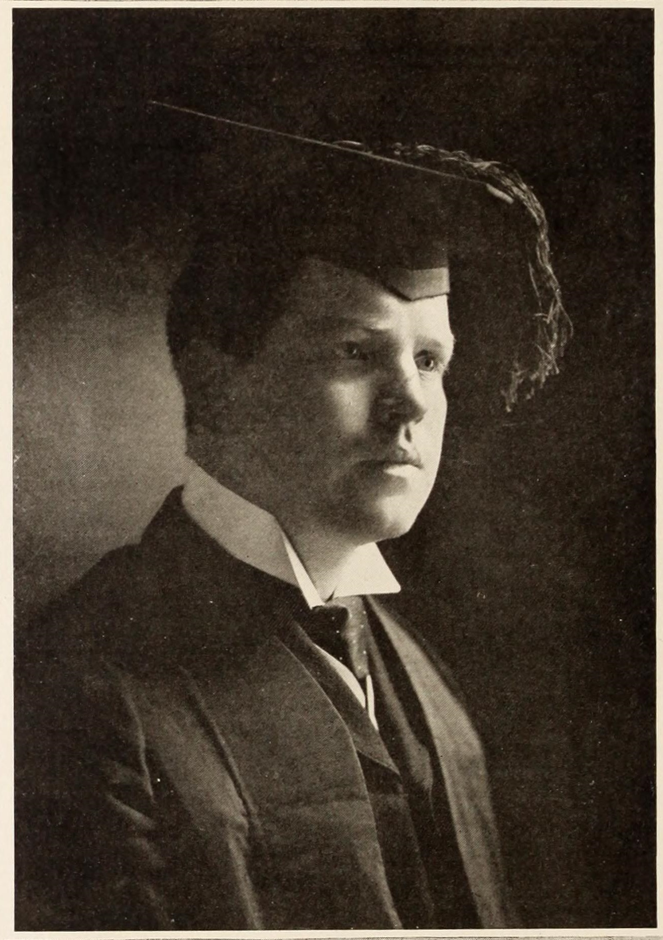 William Lathan Bevan crop